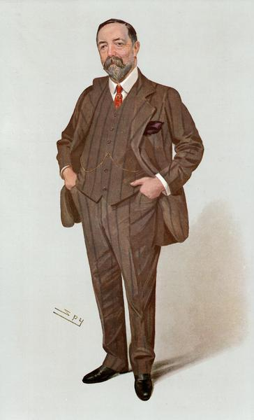 Men of the Day No.1162: Caricature of Mr James Horlick JP DL. Caption reads: "Malted Milk"